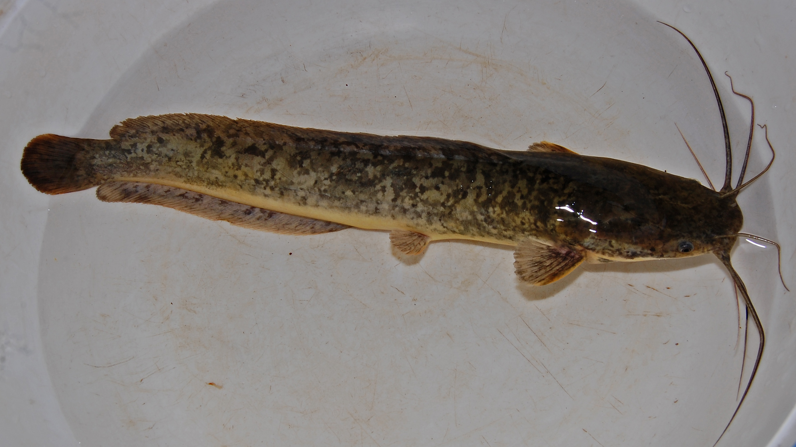 Clarias gariepinus. Bogor, West Java, Indonesia.